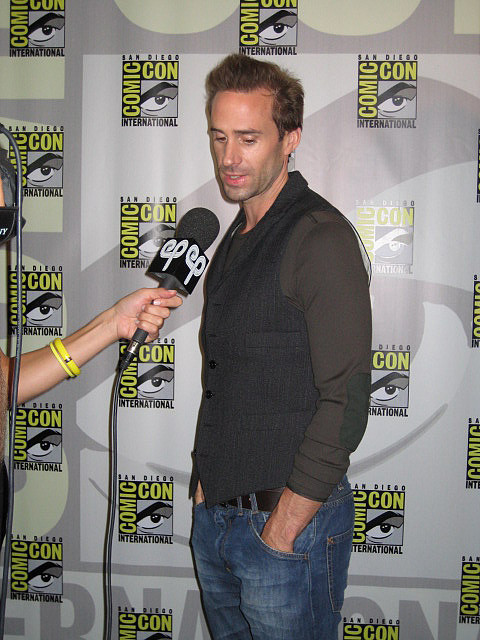 Comic-Con 2009 - FlashForward - San Diego, Calif. - July 24, 2009